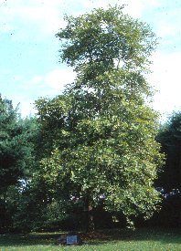 Tree of Hippocrates at the U.S. National Library of Medicine, 8600 Rockville Pike, Bethesda, MD 20894.